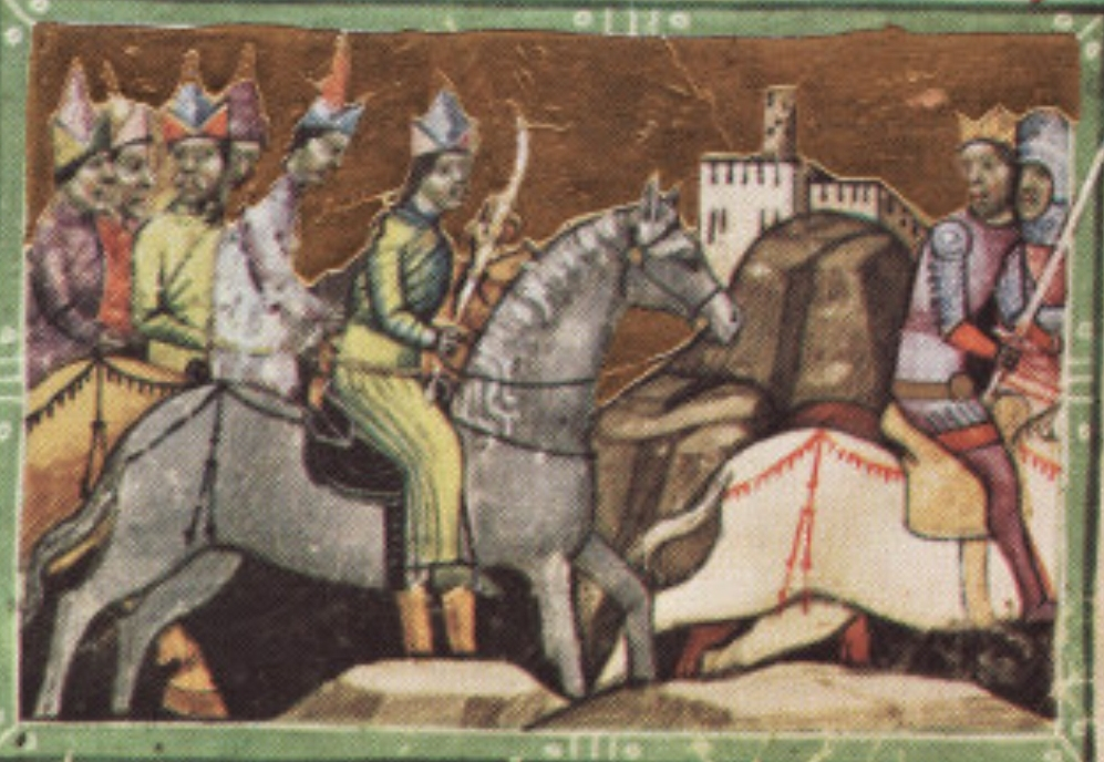 Illuminated Chronicle; Chronicon Pictum; Képes Krónika.